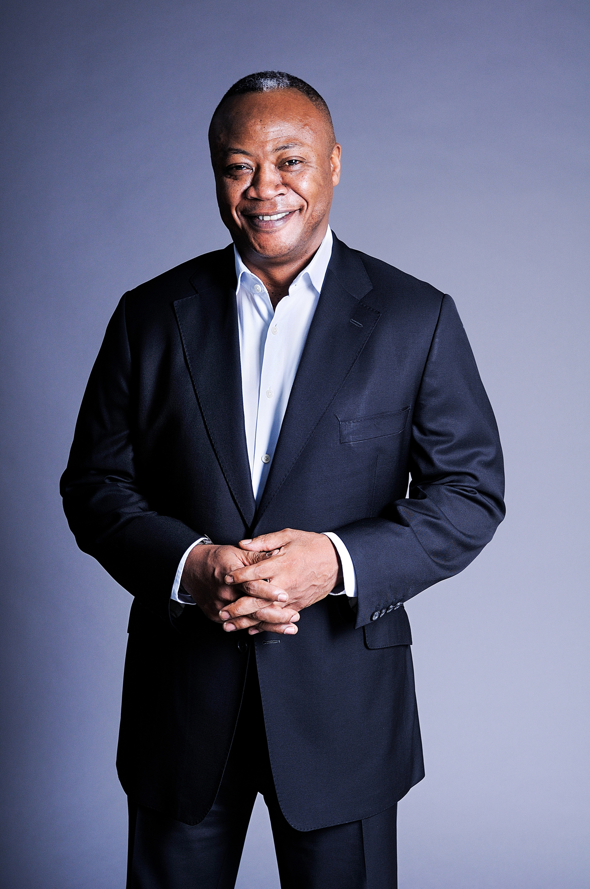 Photo of Rene Carayol